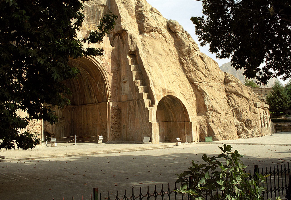 View of Taq-e Bostan